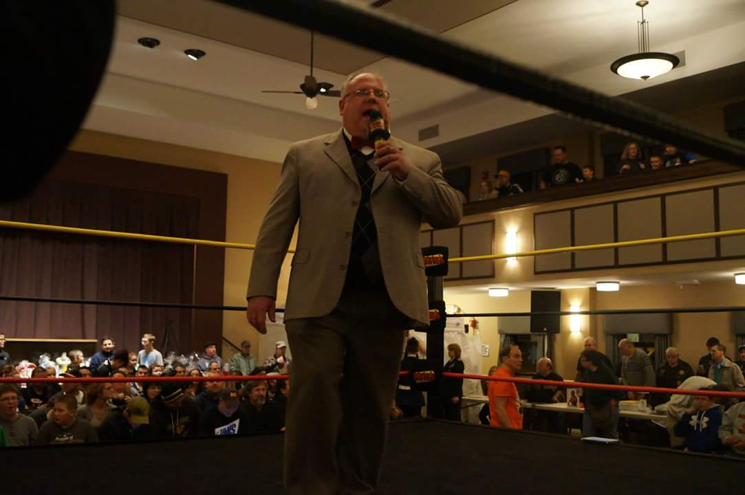 Ring Announcer trapper tom at 2014 fanfest